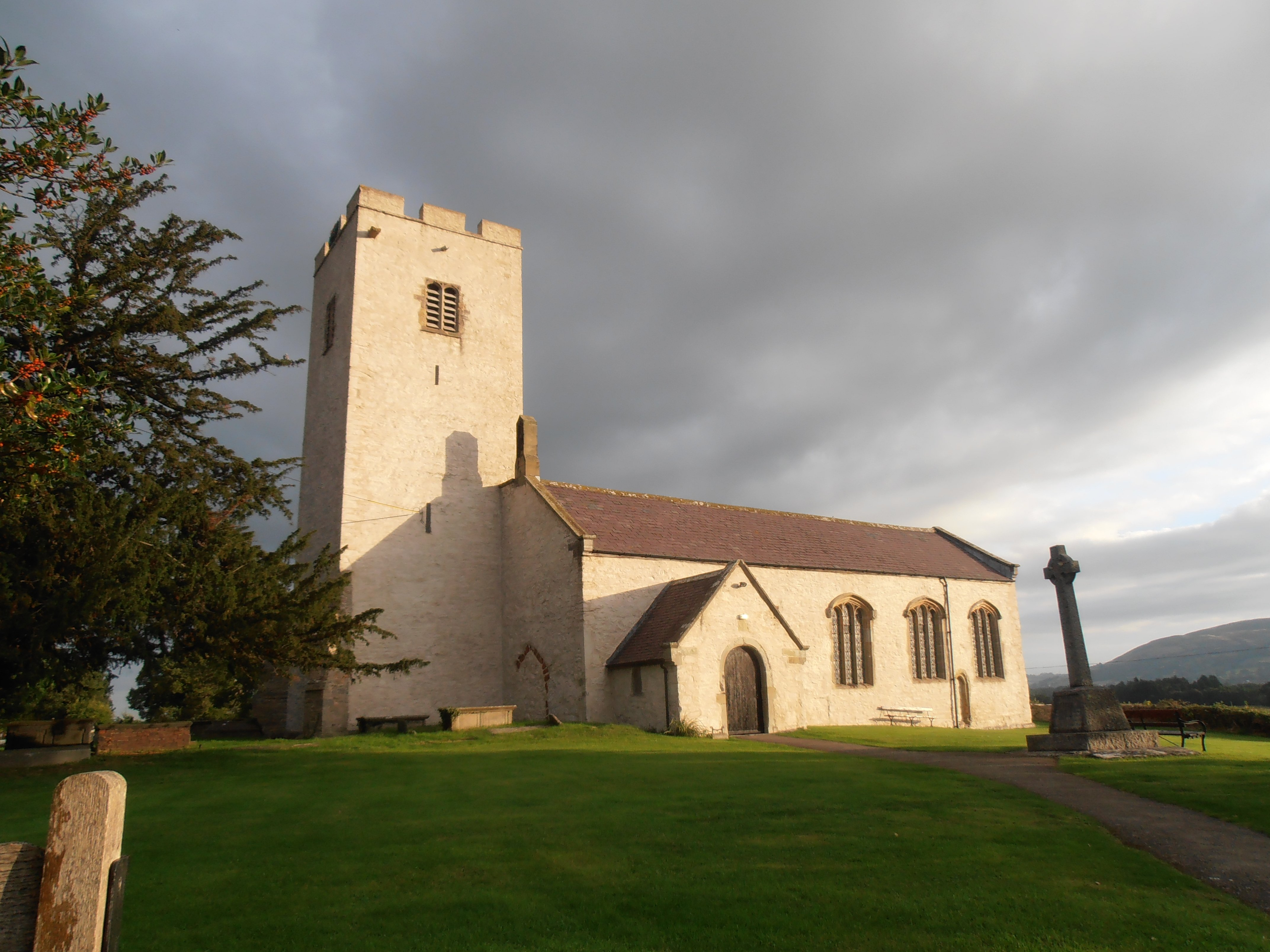 St. Marcella Church, Dinbych (Denbigh), North Wales